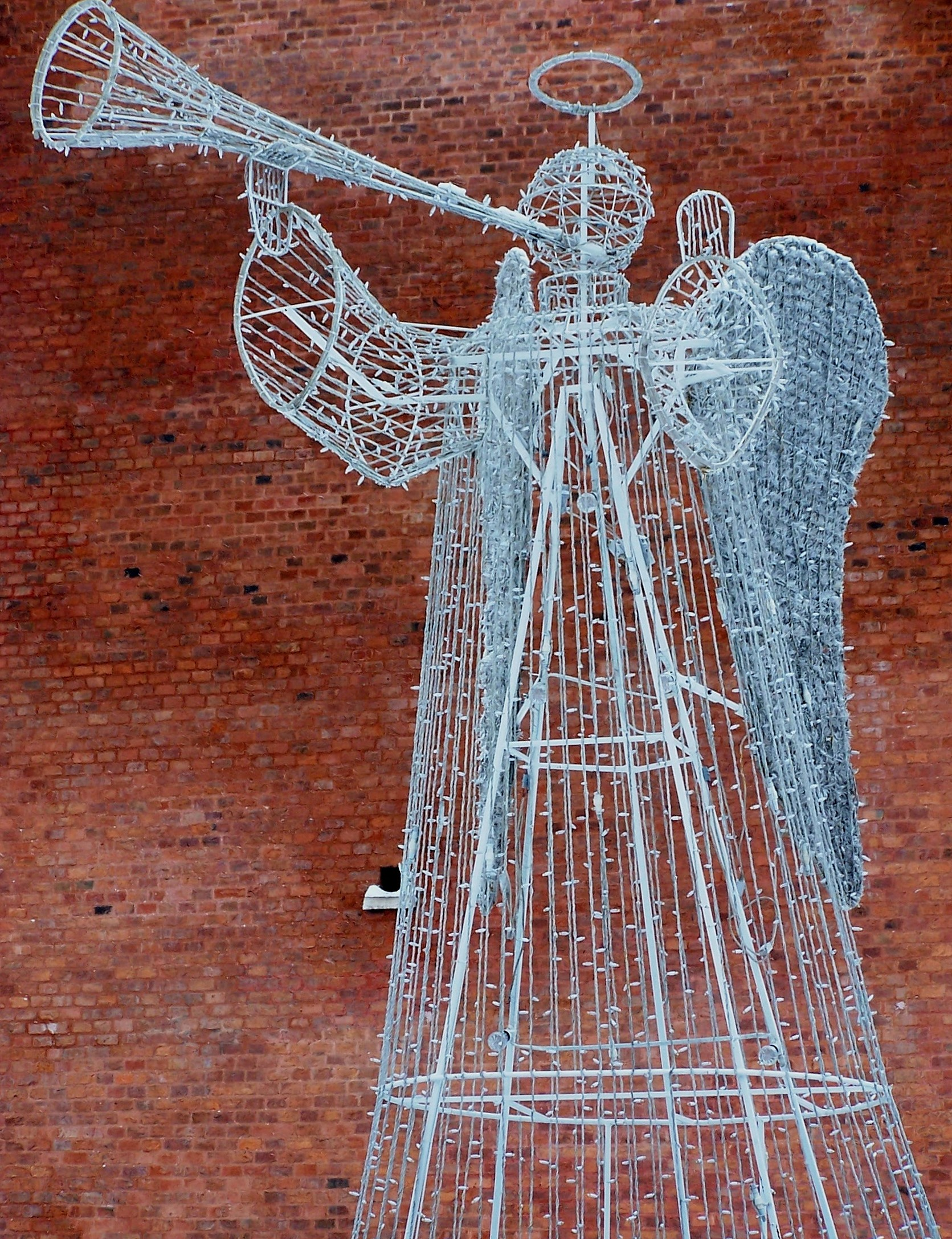 Hejnalista anioł (Cracow by Wawel)